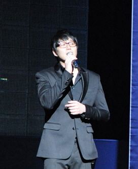 Sung Si-kyung in March 2011